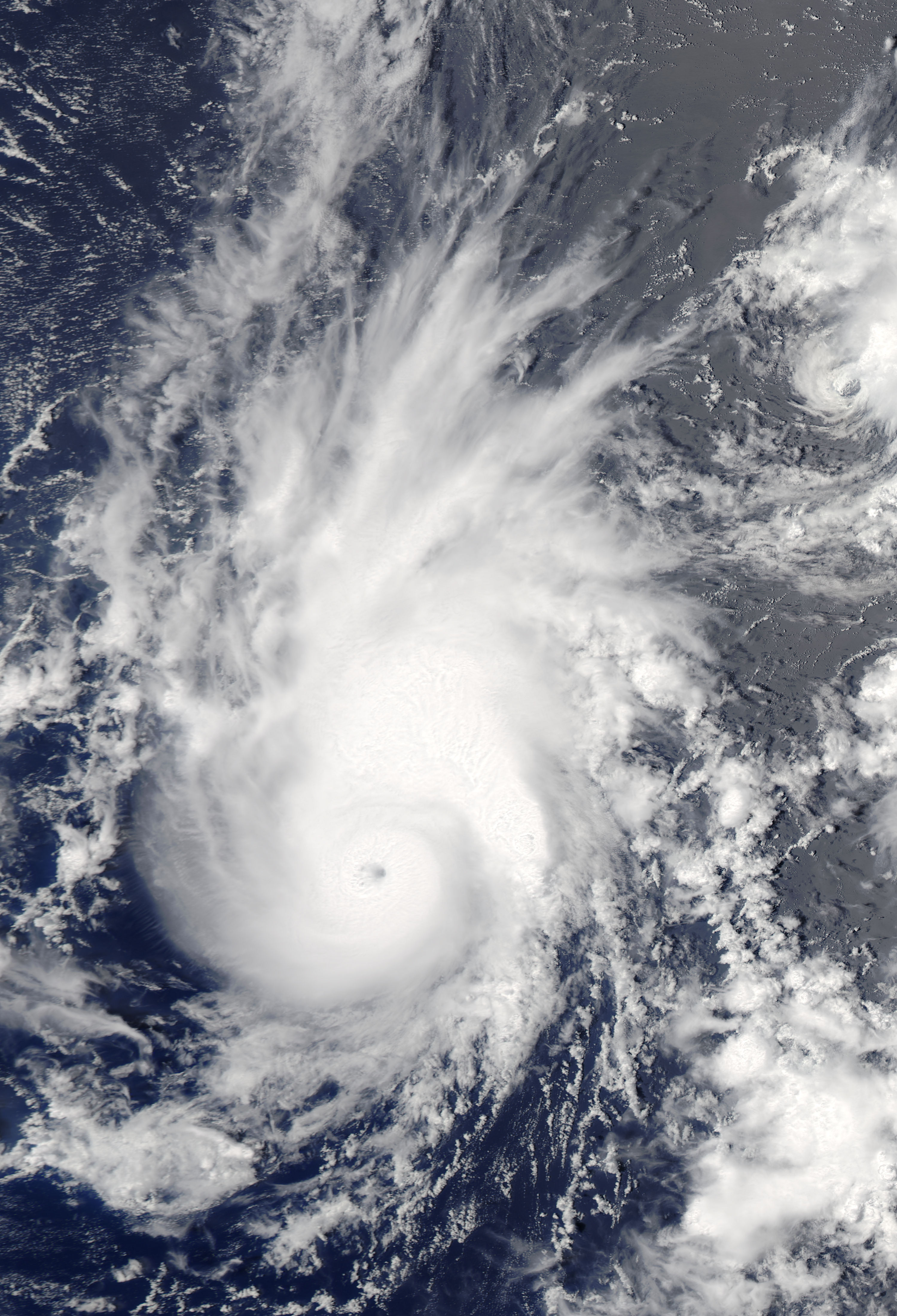 Category 1 Typhoon Pewa sustaining a mid-level eyewall at peak intensity on August 19, 2013.